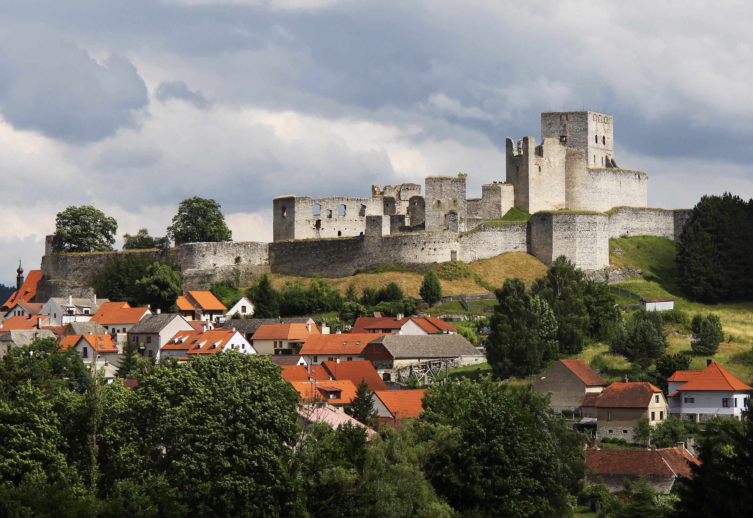 View of the Rabí castle and Rabí village in Klatovy District, Czech Republic